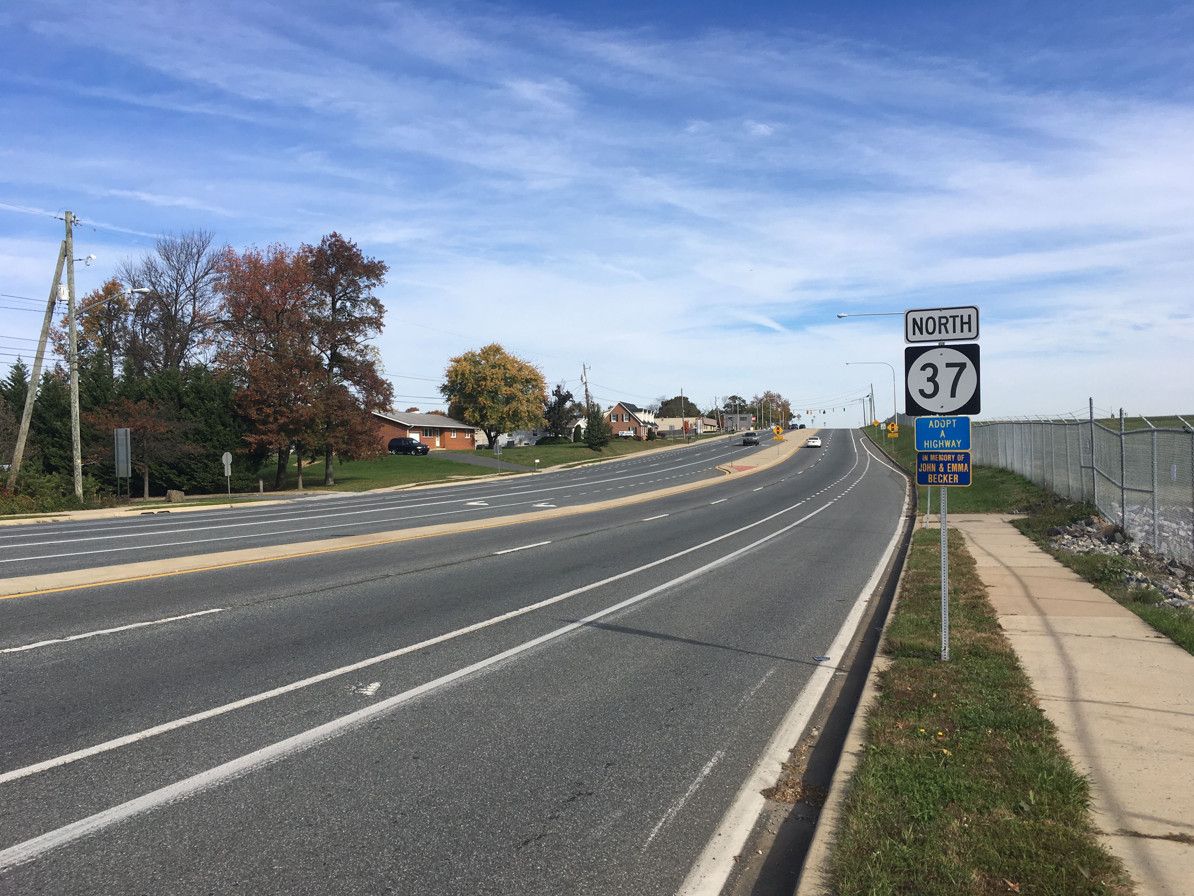 Northbound Delaware Route 37 (Airport Road) past the intersection with Delaware Route 58 (Churchmans Road) near New Castle, Delaware.